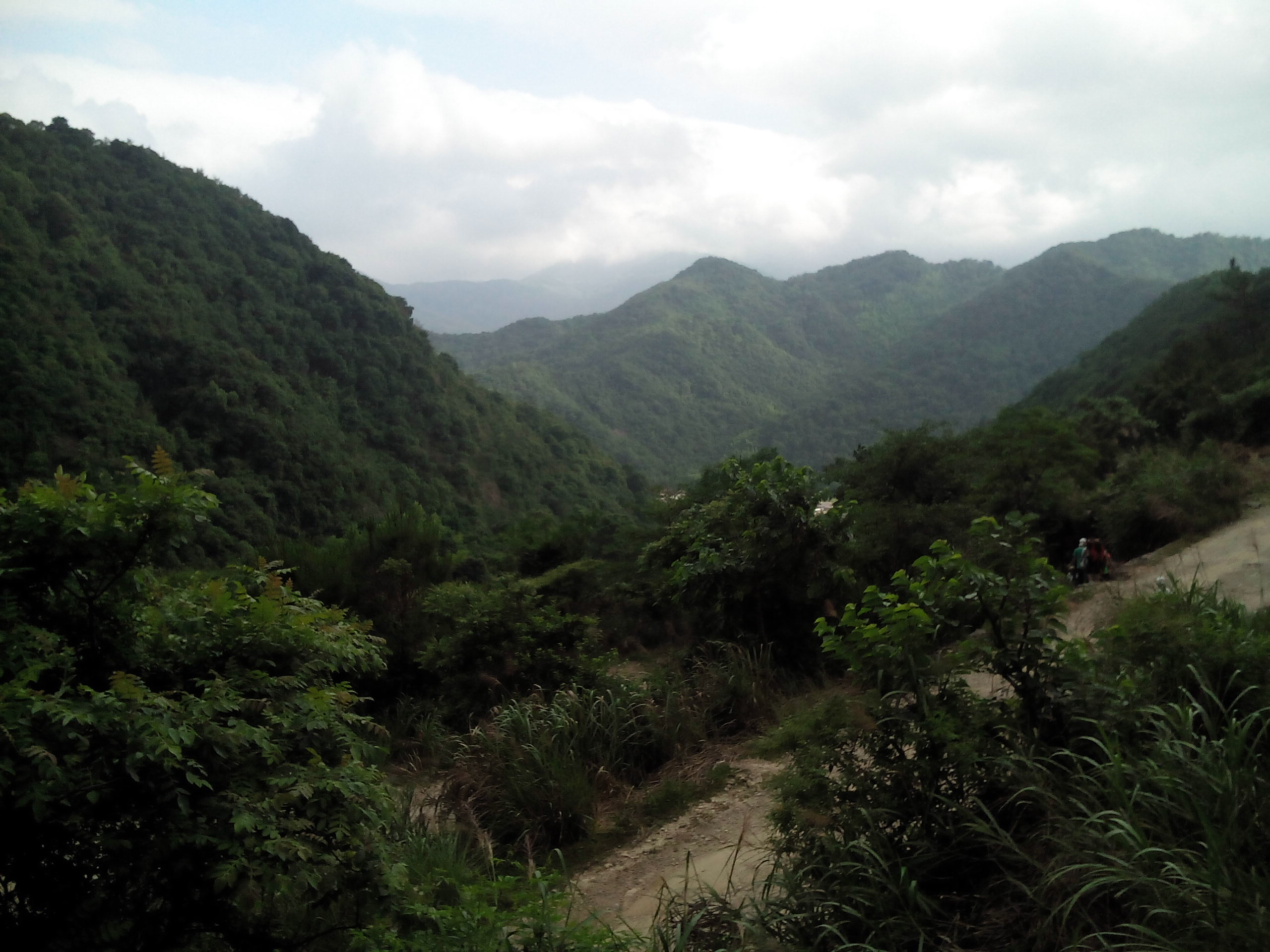 201406 Views from Yancang Temple, Ninghai